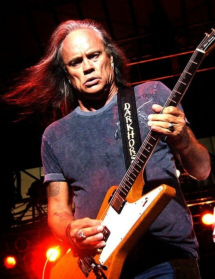 Rickey Medlocke, guitarrist of Lynyrd Skynyrd performing live.